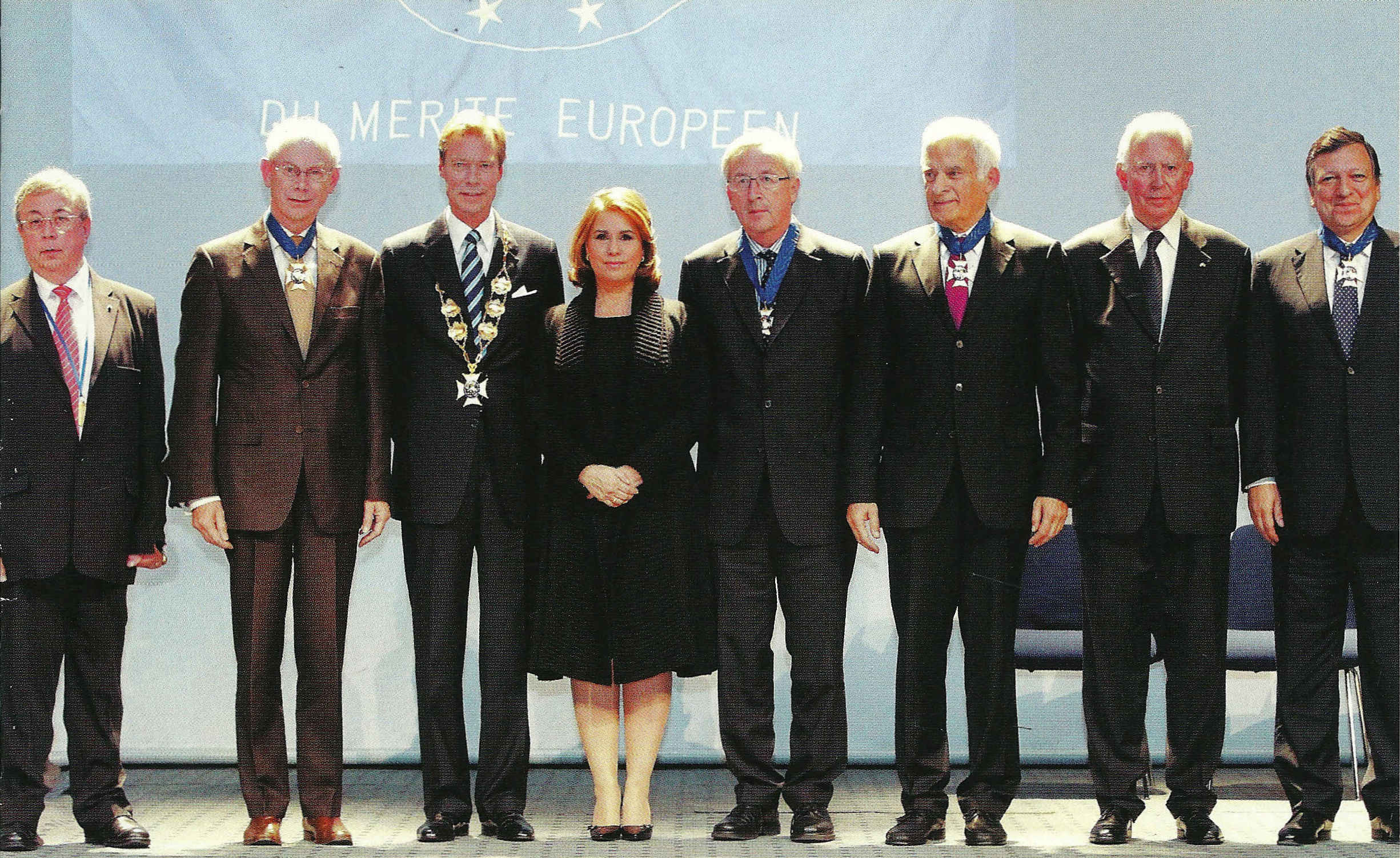 Presentation of the Grand Collier and the four Colliers on the occasion of the 40th anniversary of the Fondation du Mérite Européen in 2010. In the picture: from the left. Bruno Turbang, President of the Fondation du Mérite Européen, Herman Van Rompuy, President of the European Council, Grand Duke Henri of Luxembourg and Grand Duchess Maria Teresa, Jean-Claude Juncker, Luxembourg Prime Minister and Minister of State and President of the Eurogroup, Jerzy Buzek, President of the European Council Parliament, Jacques Santer, Secretary of State and former President of the European Commission, and Chairman of the Board of the Mérite Européen, José Manuel Barroso, President of the European Commission.